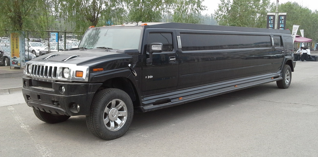 Hummer H2 Limousine photographed in Beijing, China.